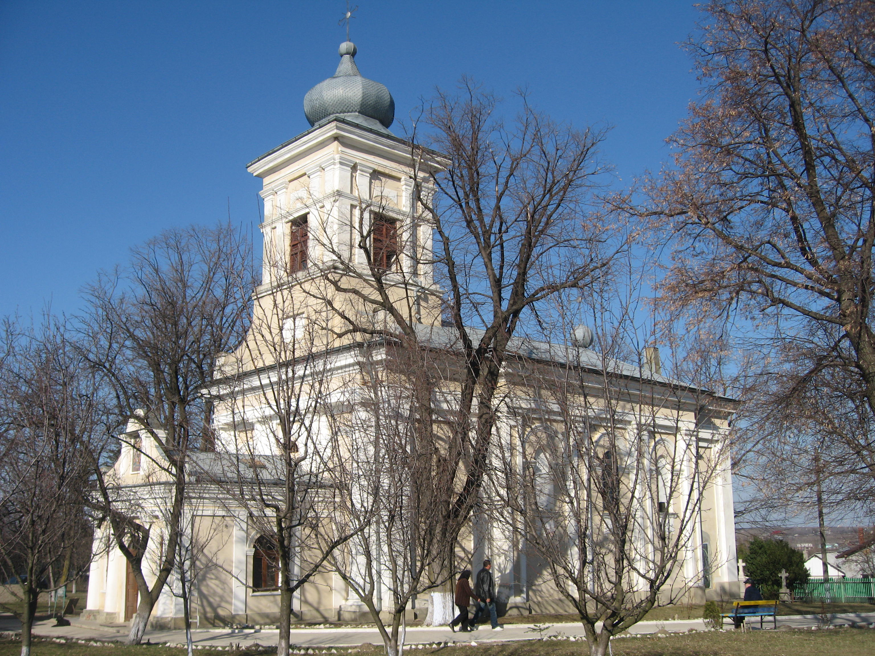 Biserica Adormirea Maicii Domnului din Voinesti